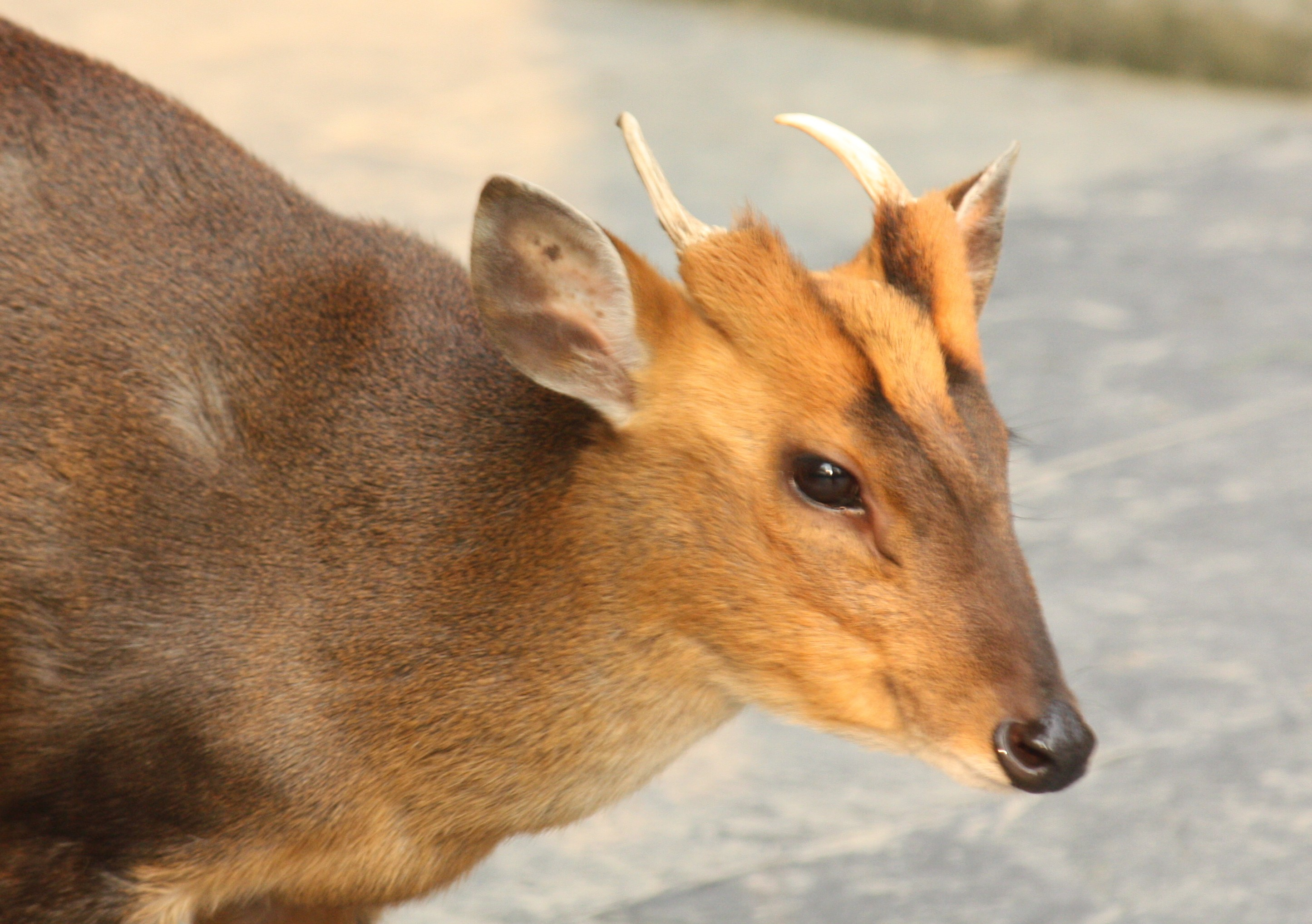 Black Muntjac (Muntiacus crinifrons) in Shanghai Zoo